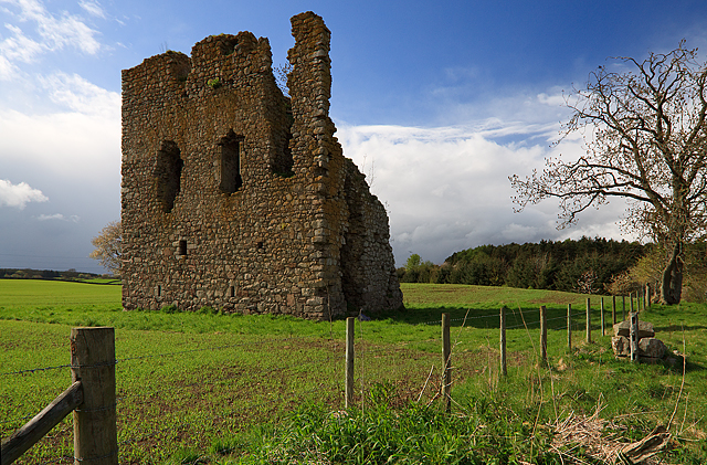 Hallforest Castle